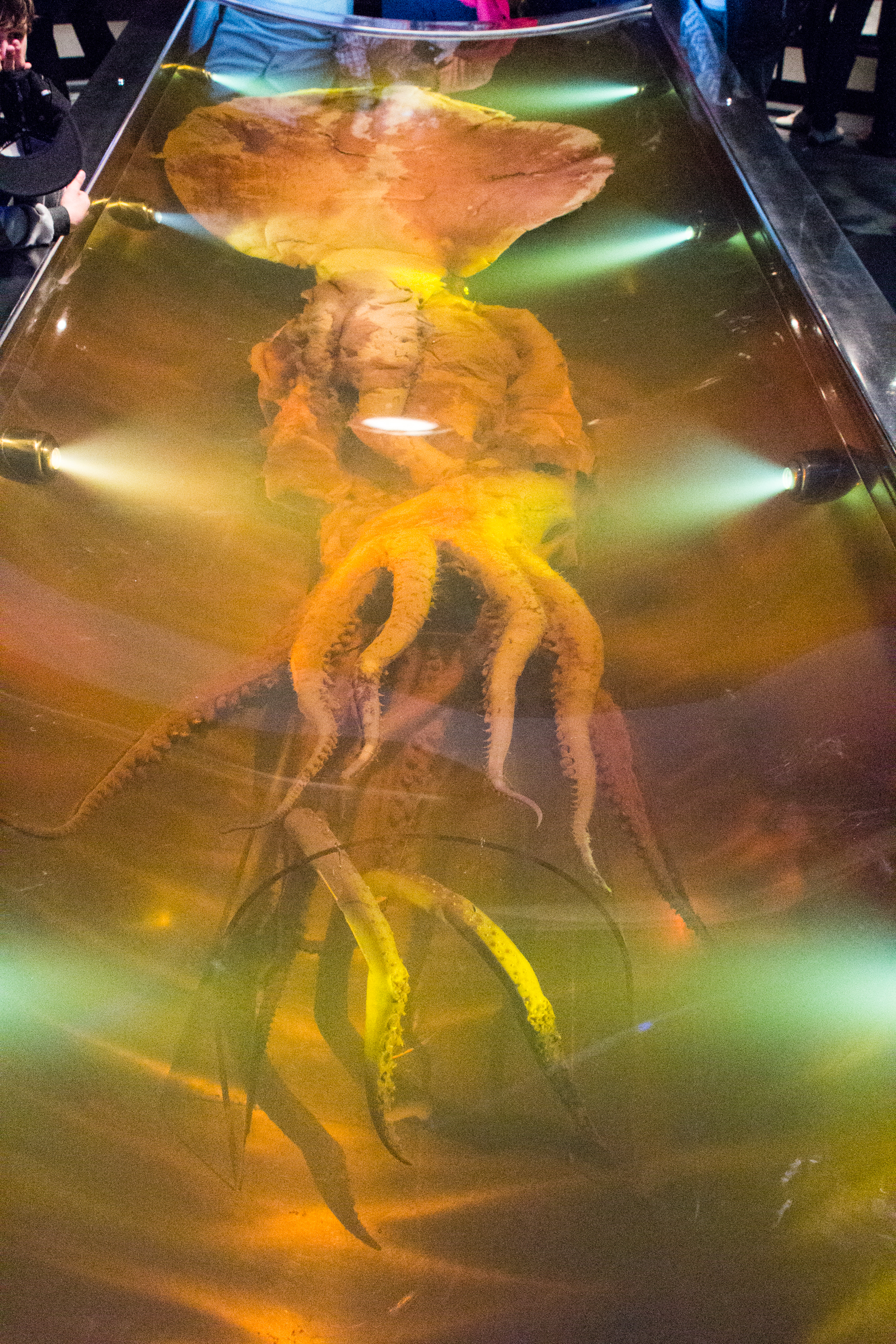 Colossal Squid preserved in Wellington's Te Papa Museum